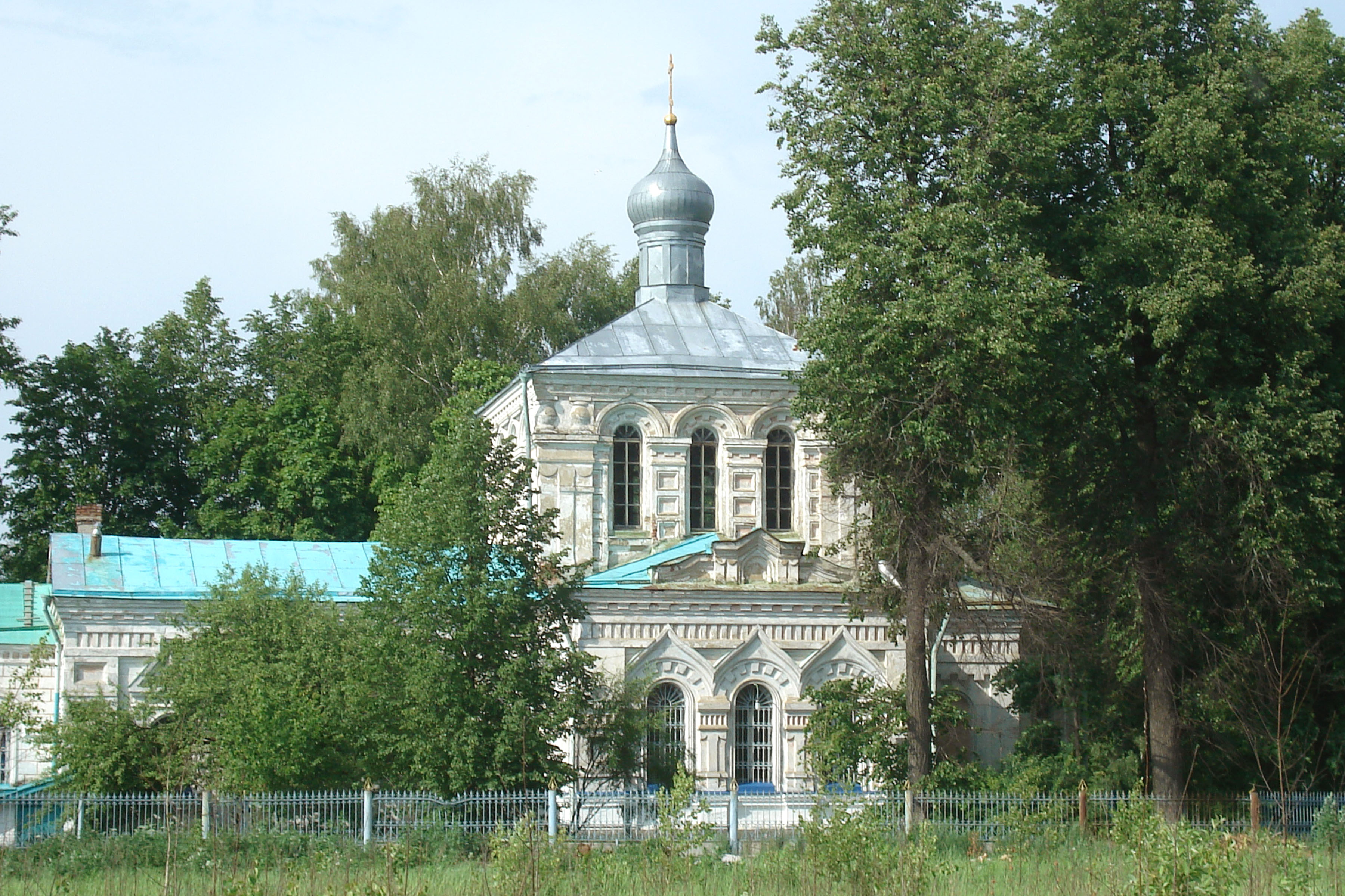 Saint Georges`s Old_Believers (Russian Orthodox Old-Rite Church) church in Alyoshino, Moscow region. 1886.